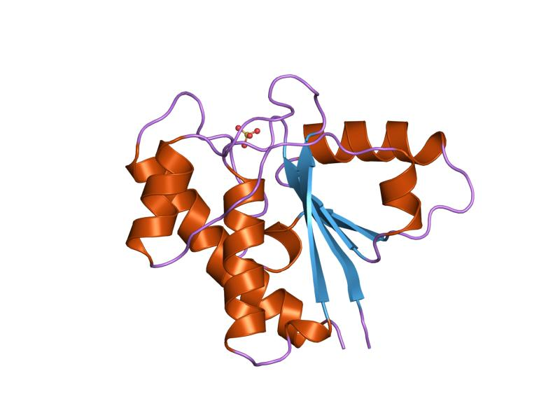 Cartoon representation of the molecular structure of protein registered with 1phr code.